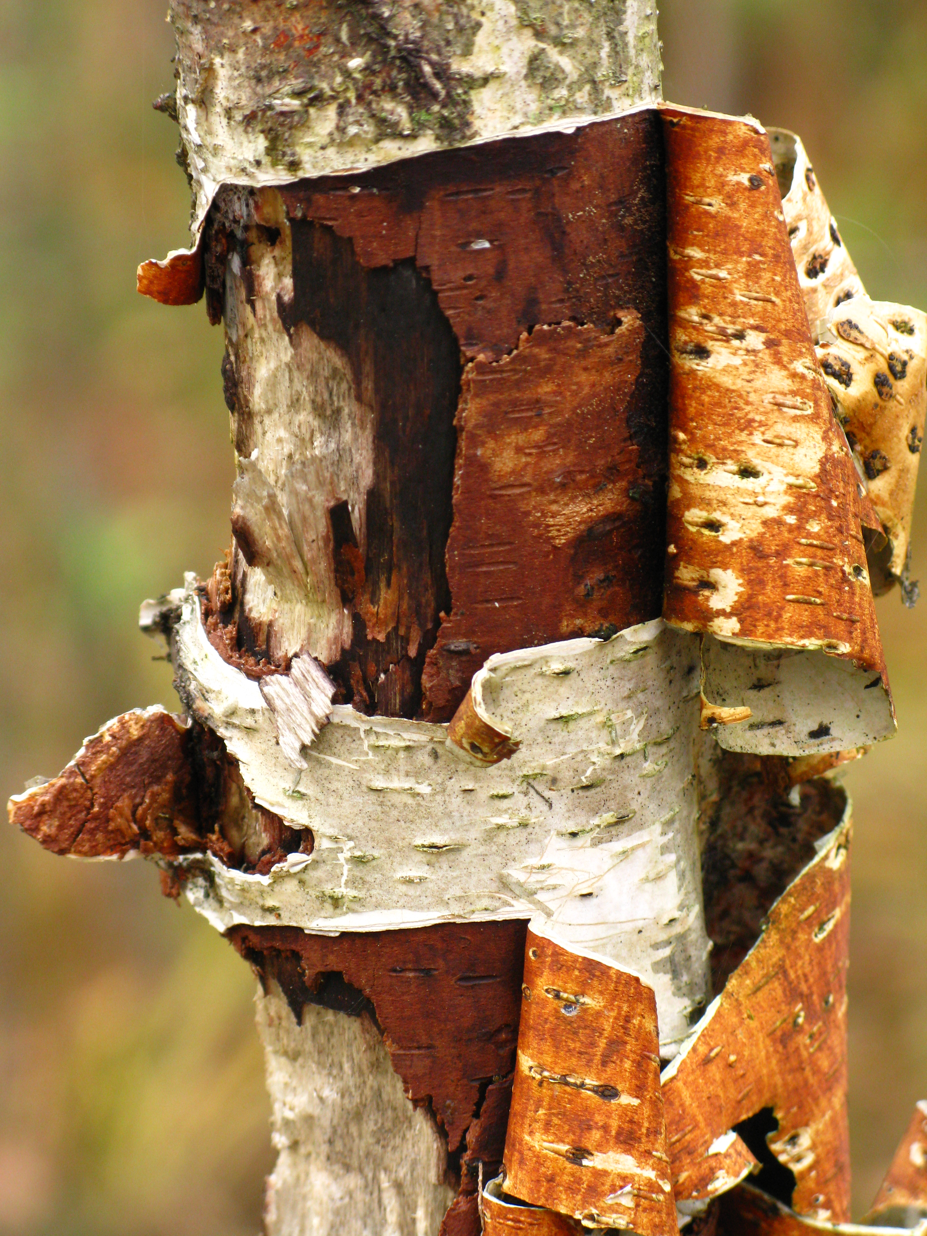 Birch bark in a decaying tree.